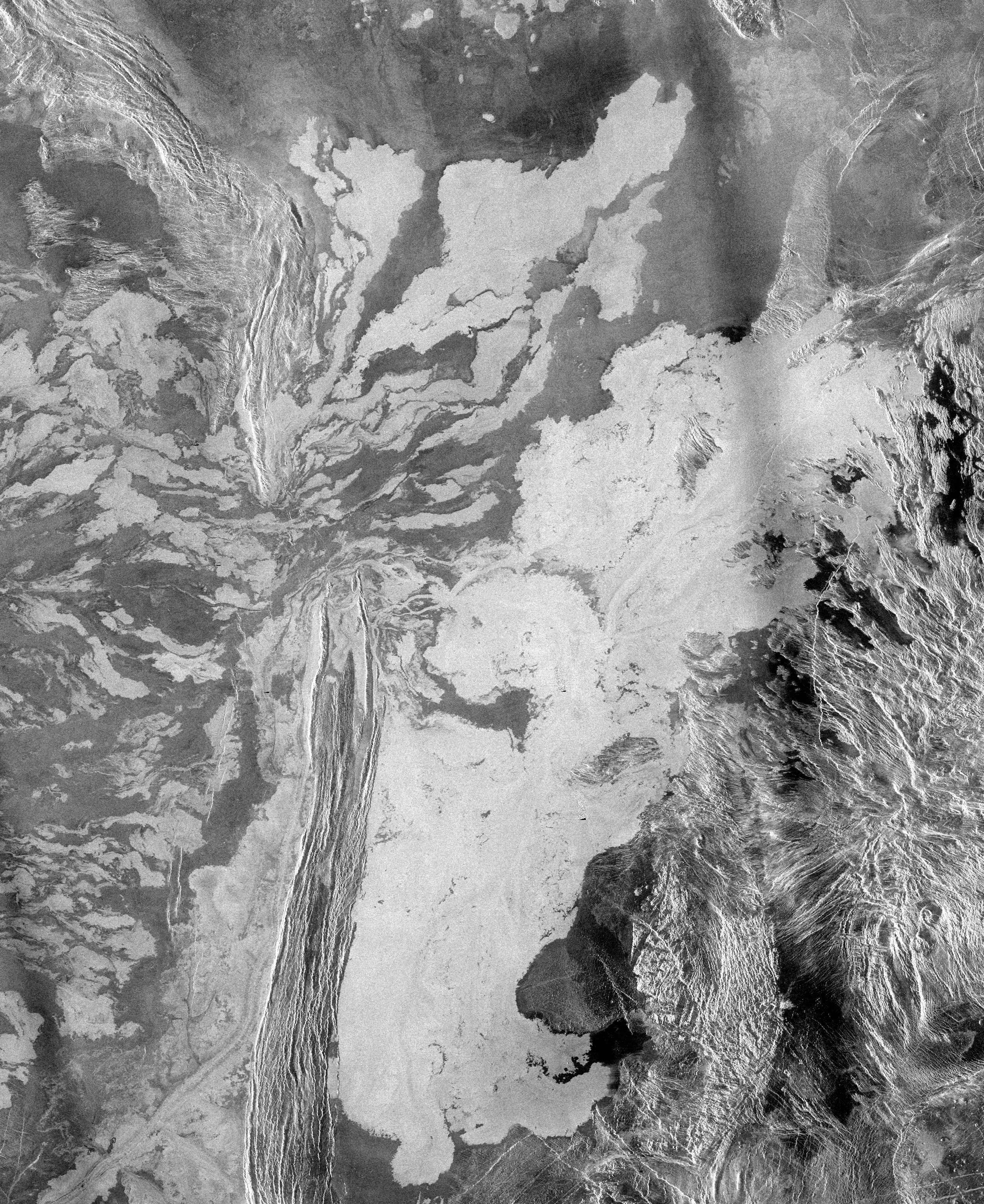 Ubastet Fluctus — lava flows about 500km across on Venus originating from Derceto Corona (beyond the left boder of the image; previously called Ammavaru caldera). Vertical feature in the bottom left is Vaidilute Rupes (a map of this region). Radar image from the Magellan probe. Caption from NASA photojournal: This is a 225 meter per pixel Magellan radar image mosaic of Venus, centered at 47 degrees south latitude, 25 degrees east longitude in the Lada region. The scene is approximately 550 kilometers (341 miles) east-west by 630 kilometers (391 miles) north-south. The mosaic shows a system of east-trending radar-bright and dark lava flows encountering and breaching a north-trending ridge belt (left of center). Upon breaching the ridge belt, the lavas pool in a vast, radar-bright deposit (covering approximately 100,000 square kilometers [right side of image]). The source caldera for the lava flows, named Ammavaru, lies approximately 300 kilometers (186 miles) west of the scene.